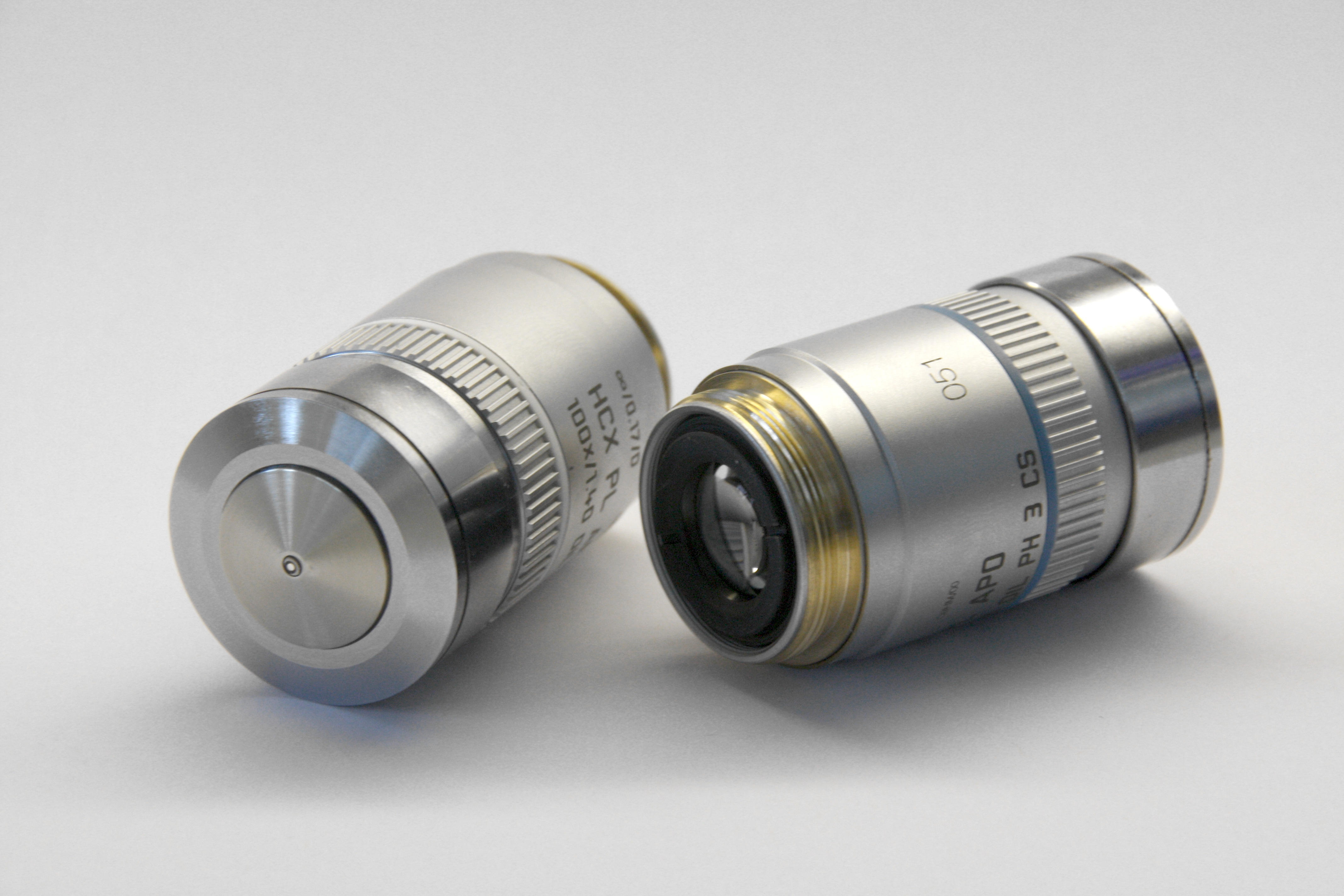 Two Leica oil-immersion epifluorescence microscope phase contrast lenses. Left view of the sample-facing side of a 100x objective lens. Right camera/occular-facing side of a 40x objective lens.